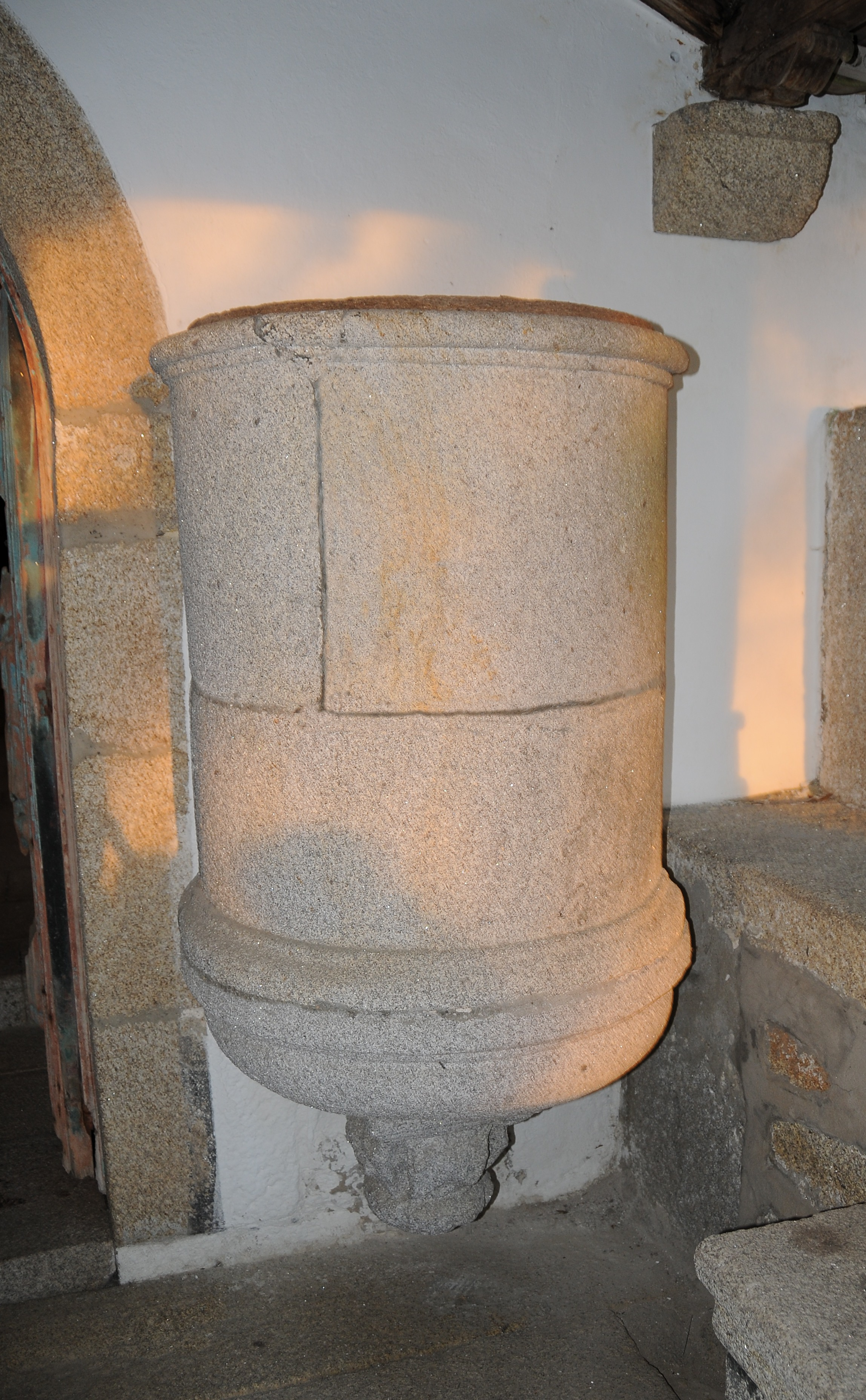 Pulpit in Capela de Nossa Senhora do Rosário in Antas, Esposende, Portugal